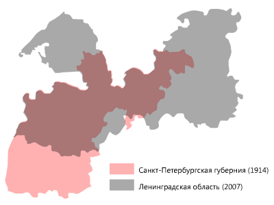 Comparisson of Leningrad oblast and Saint Petersburg guberniya